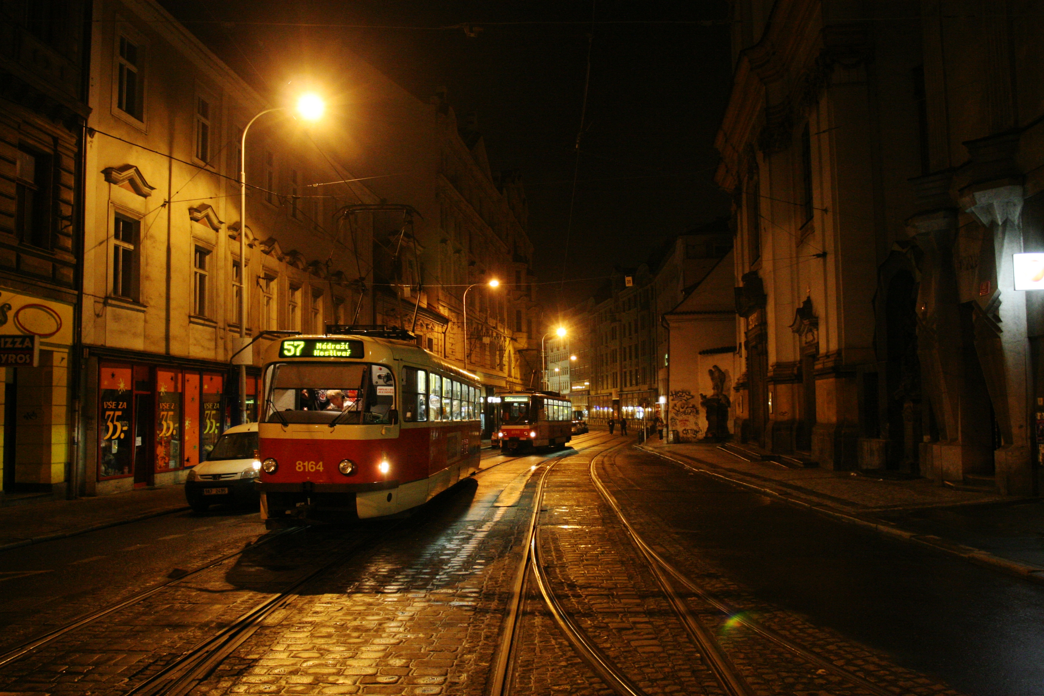 Night tram in Spálená street, Prague